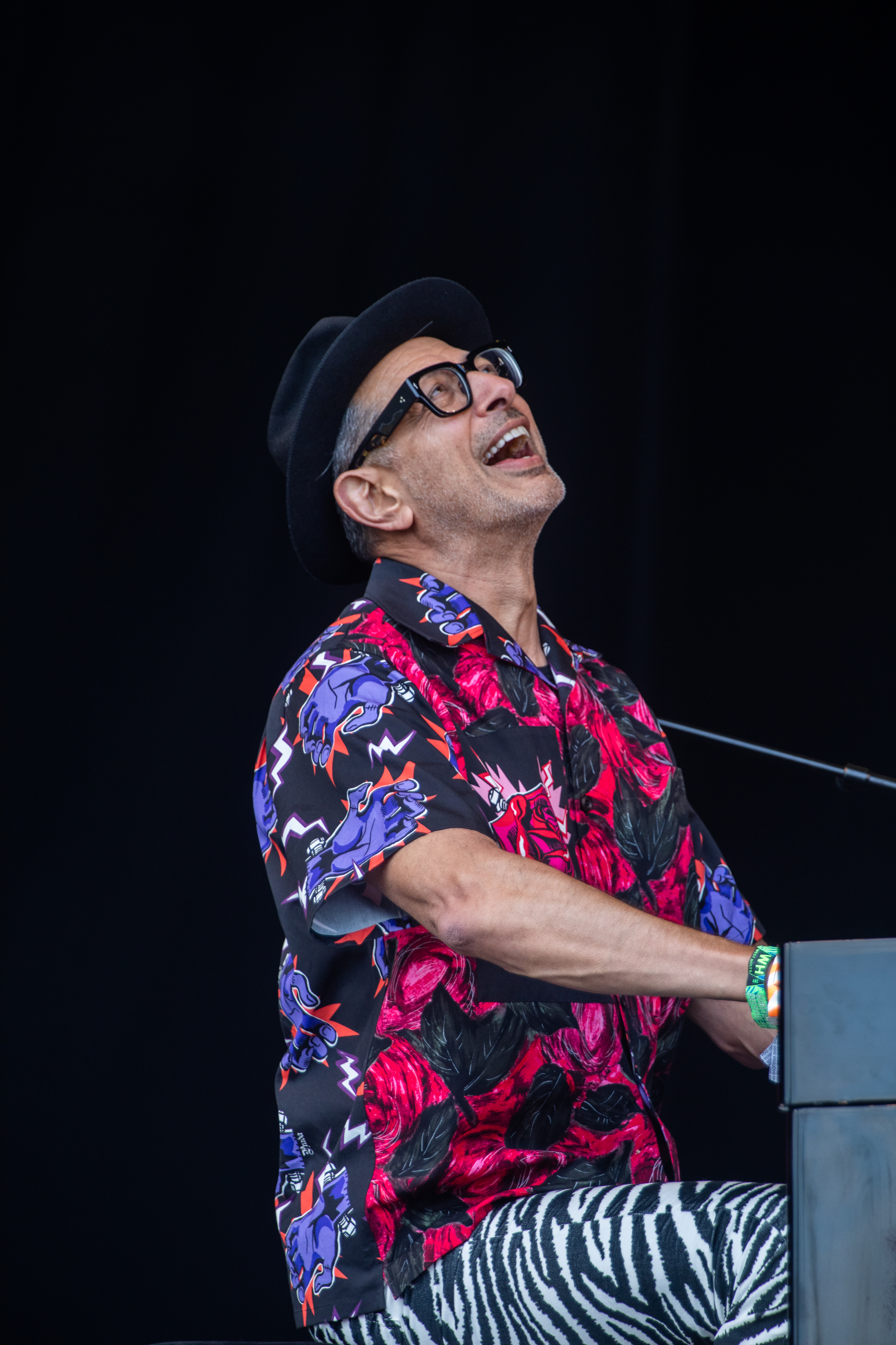 Jeff Goldblum and the Mildred Snitzer Orchestra West Holts Stage Glastonbury Festival 2019